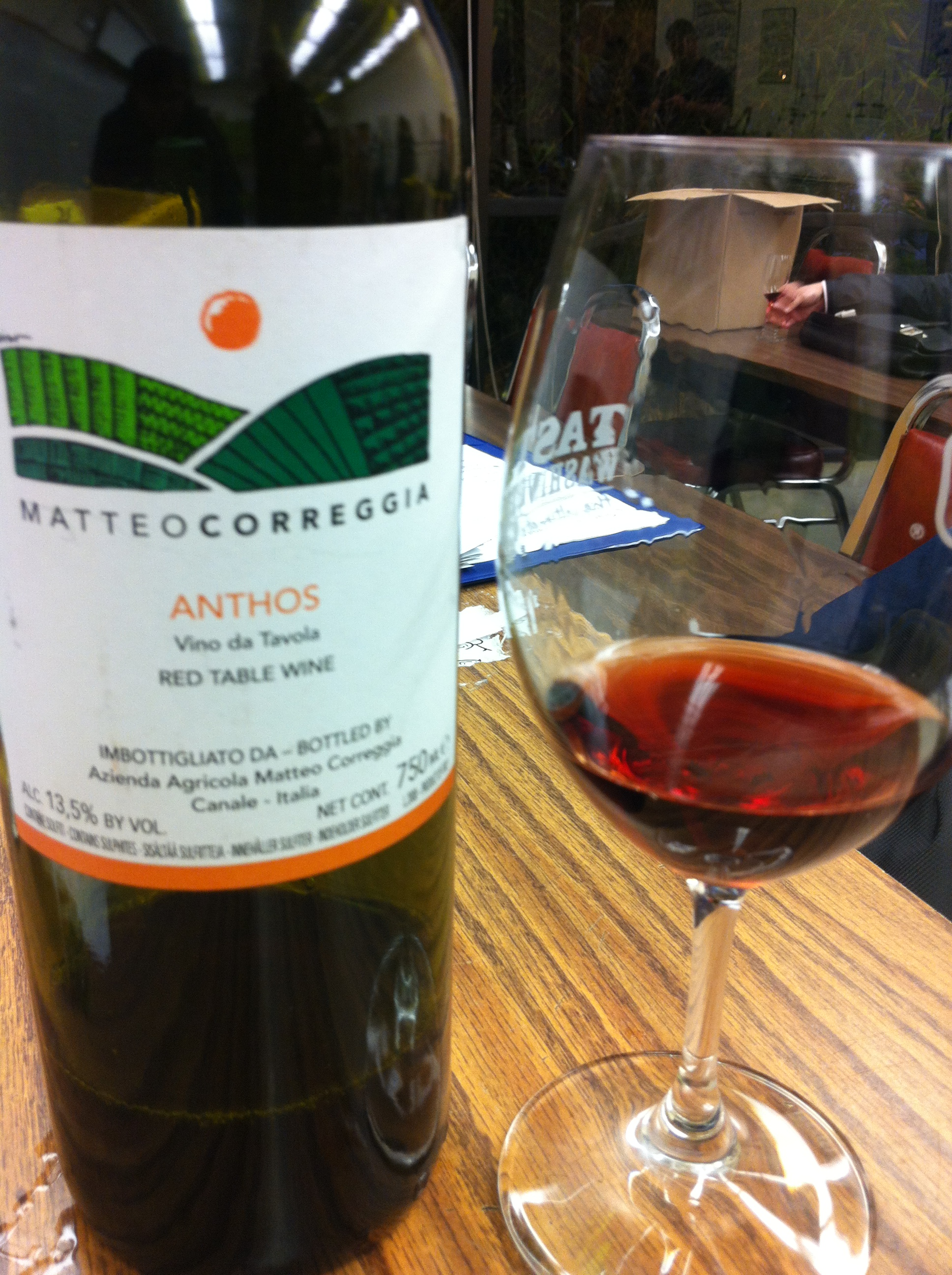 Italian Vino da Tavola wine from the Piedmont region made primarily from Brachetto